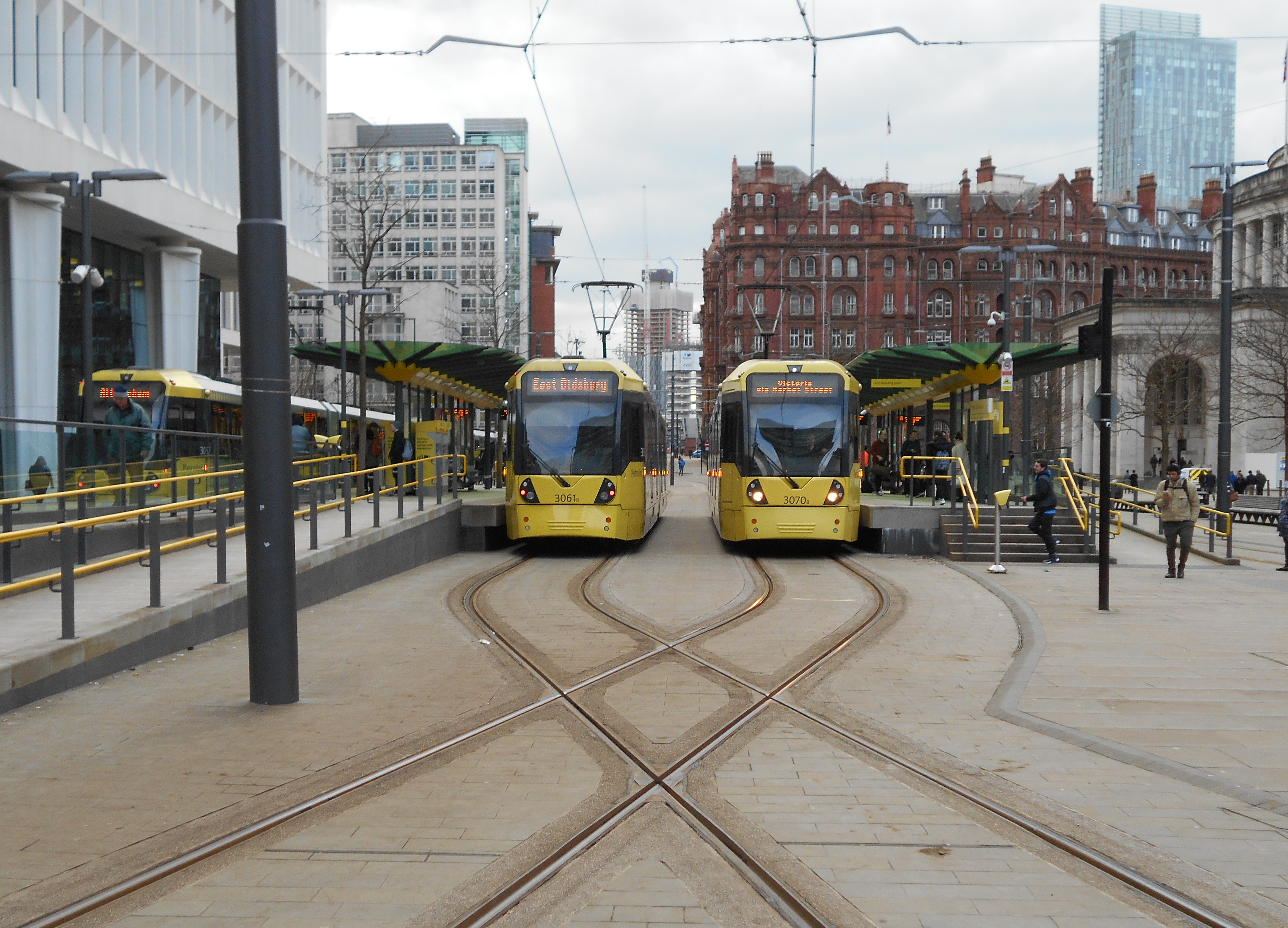 St Peter's Square tram stop, Manchester. Each of the island platforms have tracks on each side. In the foreground is the crossover point between the first and second city crossings. The track entering the picture from the bottom right is used by outbound trams coming from the Second City Crossing (2CC) while the track entering from the bottom left is used by inbound trams on the First City Crossing (1CC).